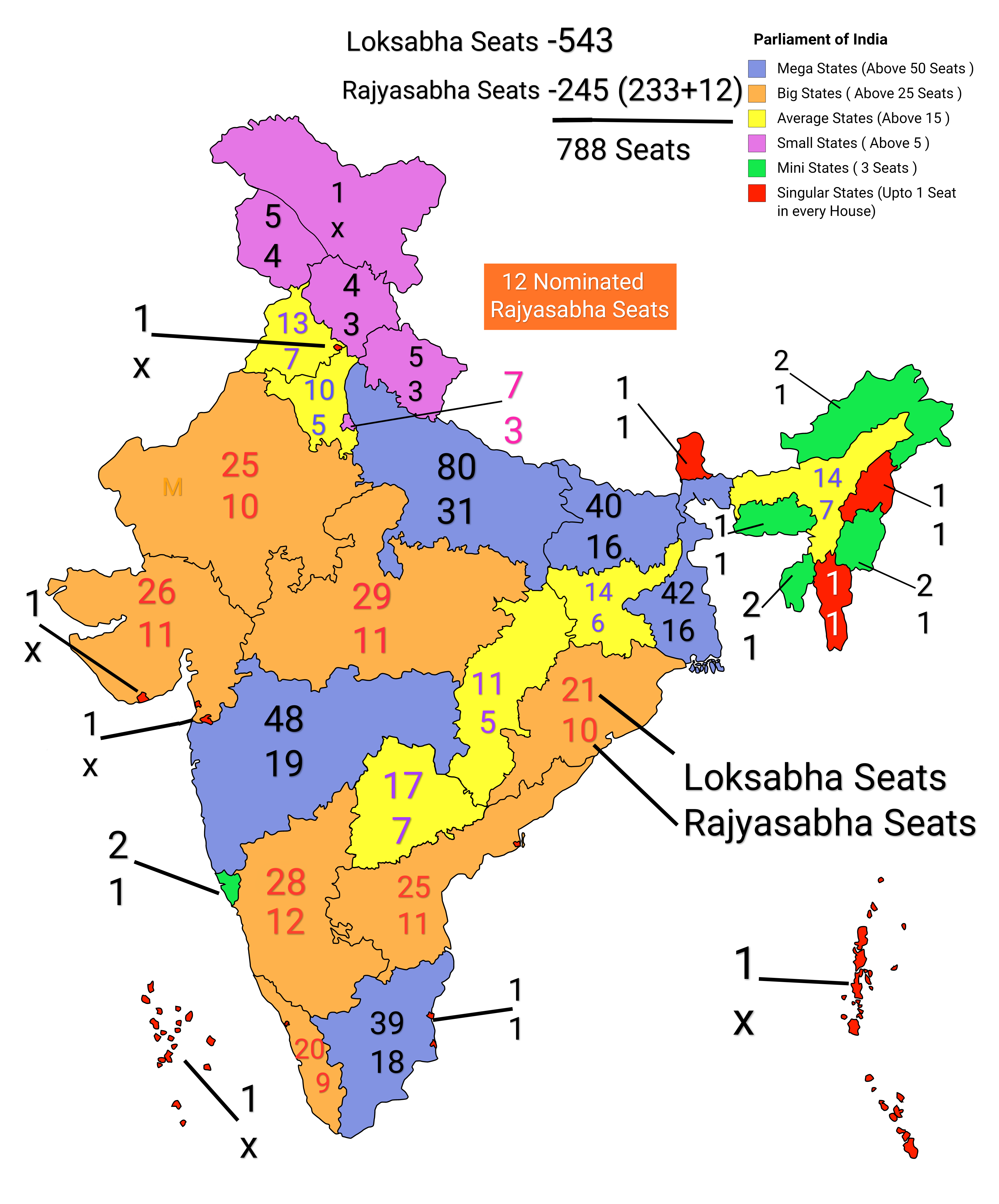 Bas yahi kaam bacha hai